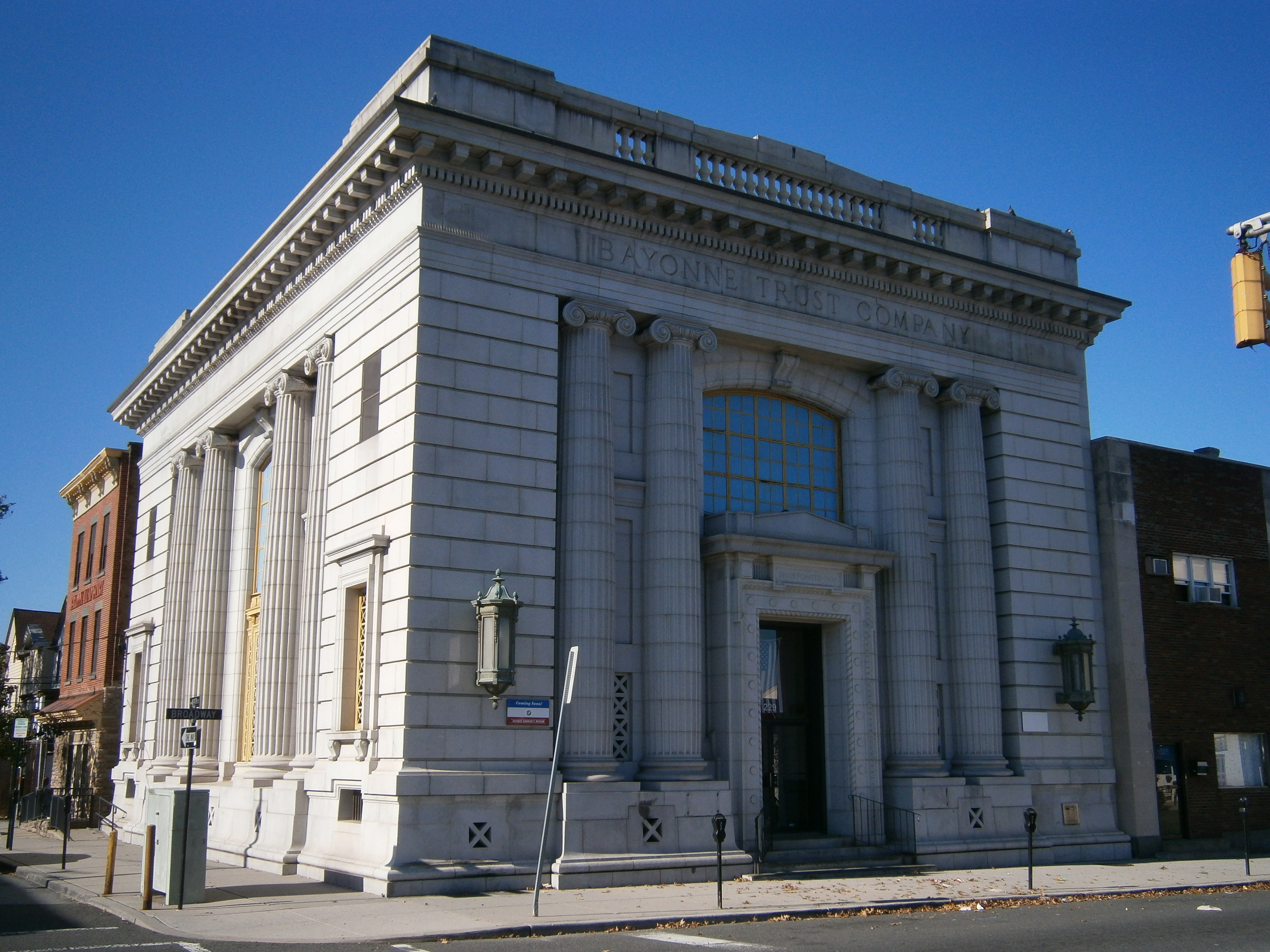 Bayonne Community Museum (formerly Bayonne Trust) (NRHP)